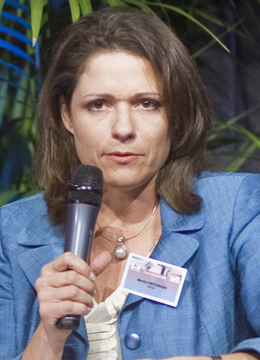 France - MIT conference